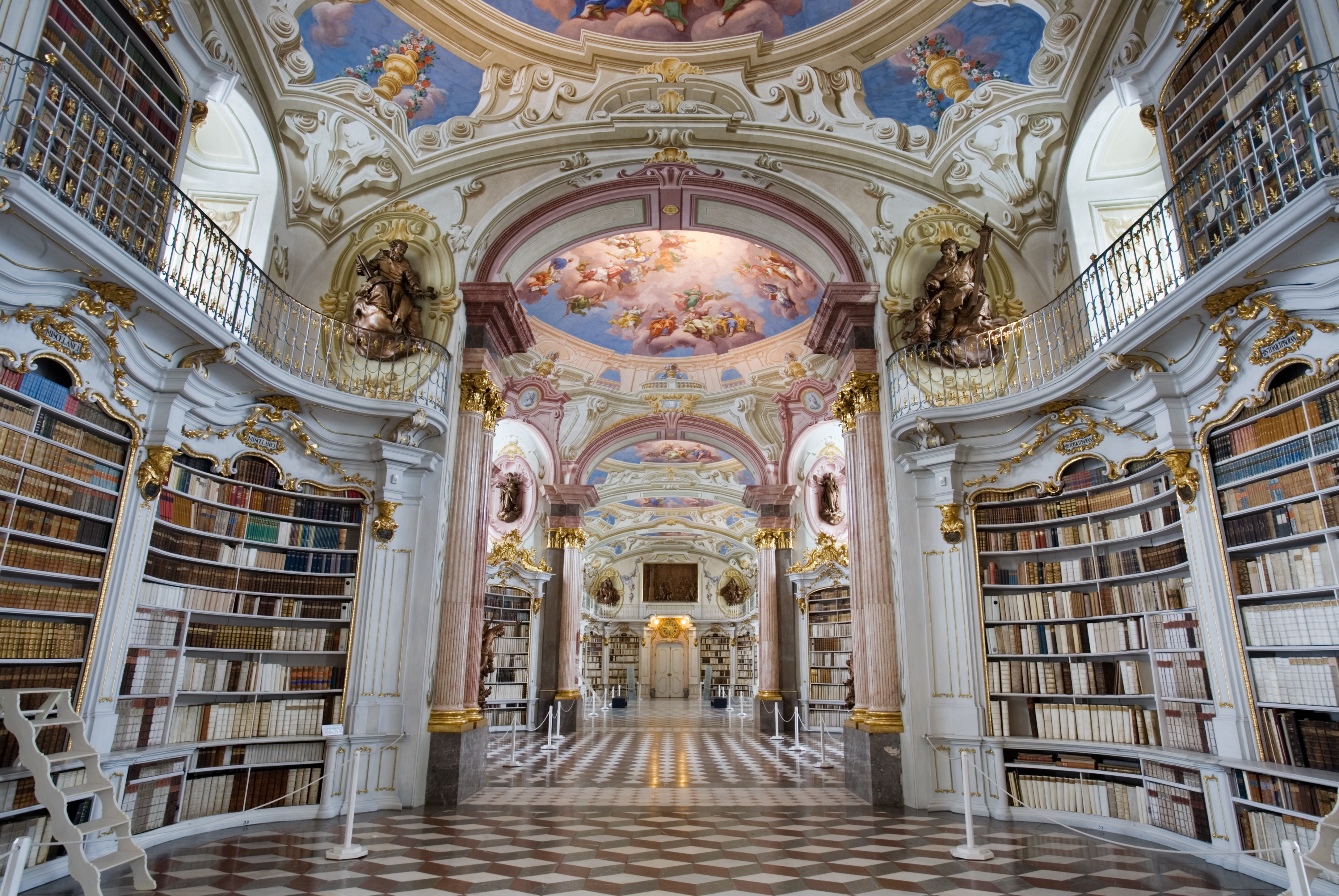 Admont Abbey Library, Austria